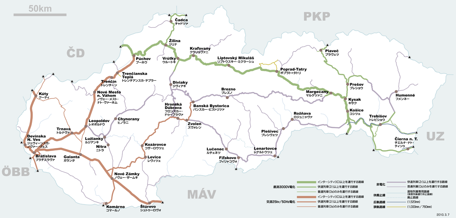 Map of ŽSR Railway Lines with Japanese language.